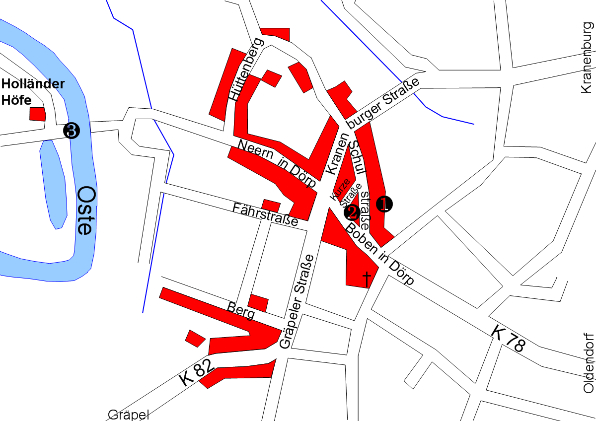 Map of the village Brobergen in Lower Saxony, Germany. ❶ is the Dorfgemeinschaftshaus (Community Center) or Sport- und Kulturzentrum (centre for sports and culture) ❷ is the Freiwillige Feuerwehr (auxiliary fire brigade) ❸ is the ferry over the Oste † is the graveyard chapel